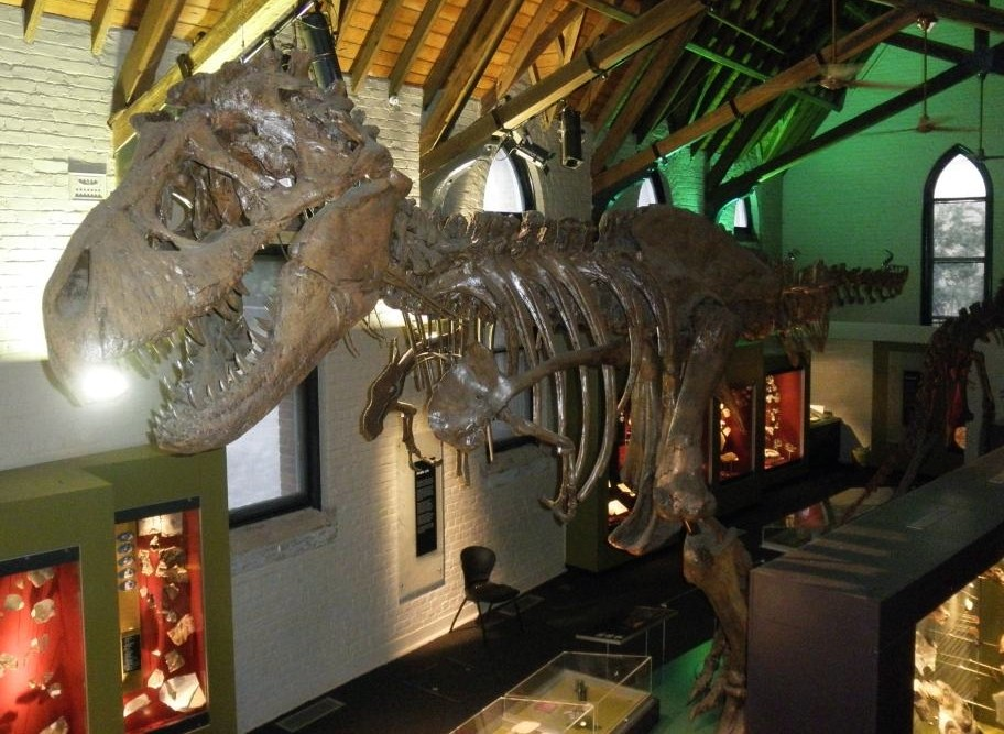 Tyrannosaurus rex skeleton at Bathurst Fossil and Mineral Museum